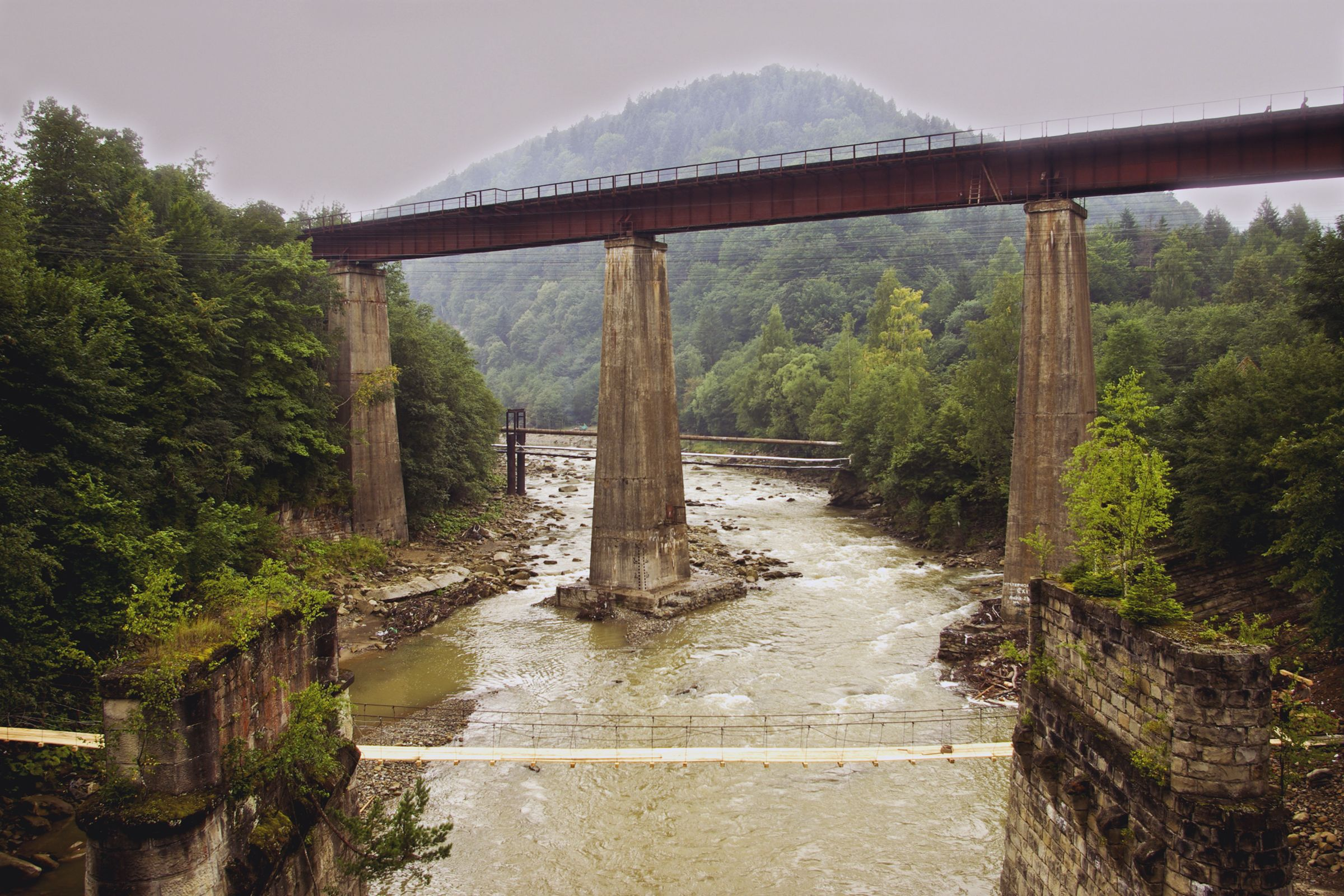 Bridges over Prut in Yaremche, Ukraine